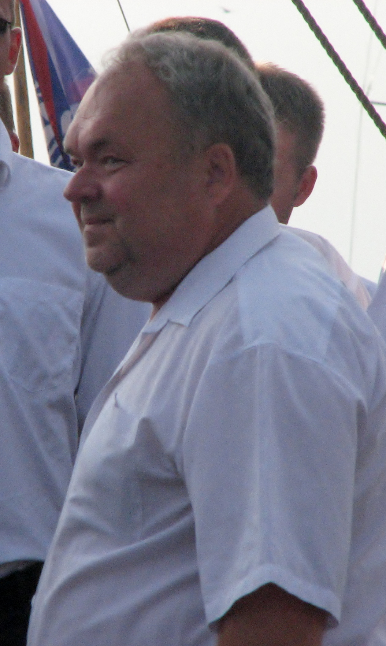 Jüri Rent performing in Kuressaare Maritime Days